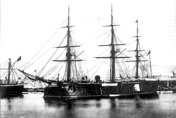 Italian armored steam frigate RN Venezia of Regia Marina